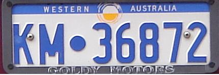 Car registration plate of Western Australia